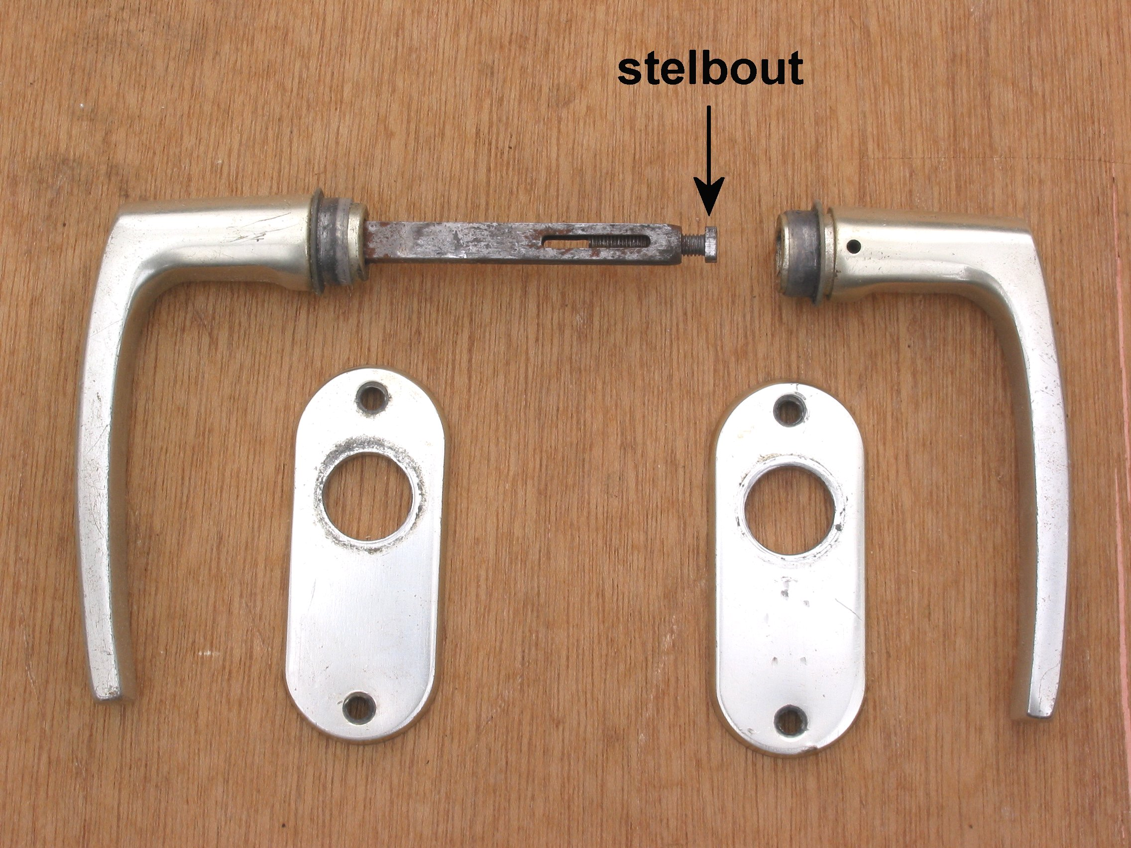 door handle